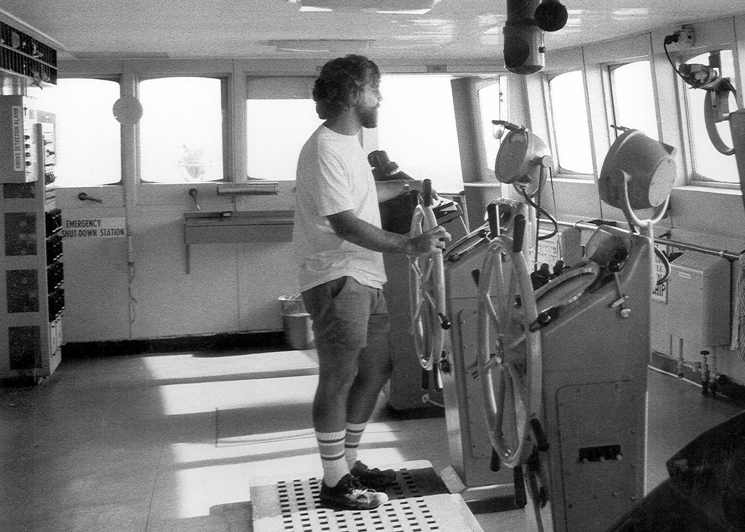 A helmsman relies upon visual references, a magnetic and gyrocompass, and a rudder indicator to steer a ship as directed by the mate or other officer on the bridge. The bridge of the freighter shown here has two steering stands. This redundancy is a safety measure in case one of the steering mechanisms that controls the ship's rudder fails. Date: circa 1981 - 1983 Location: At sea Photographer: Randy C. Bunney Attribution: Randy C. Bunney, Great Circle Photography